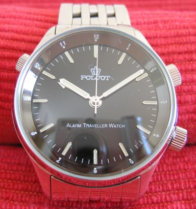 mechanical Poljot wrist watch with alarm